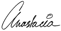 Anastacia's signature.